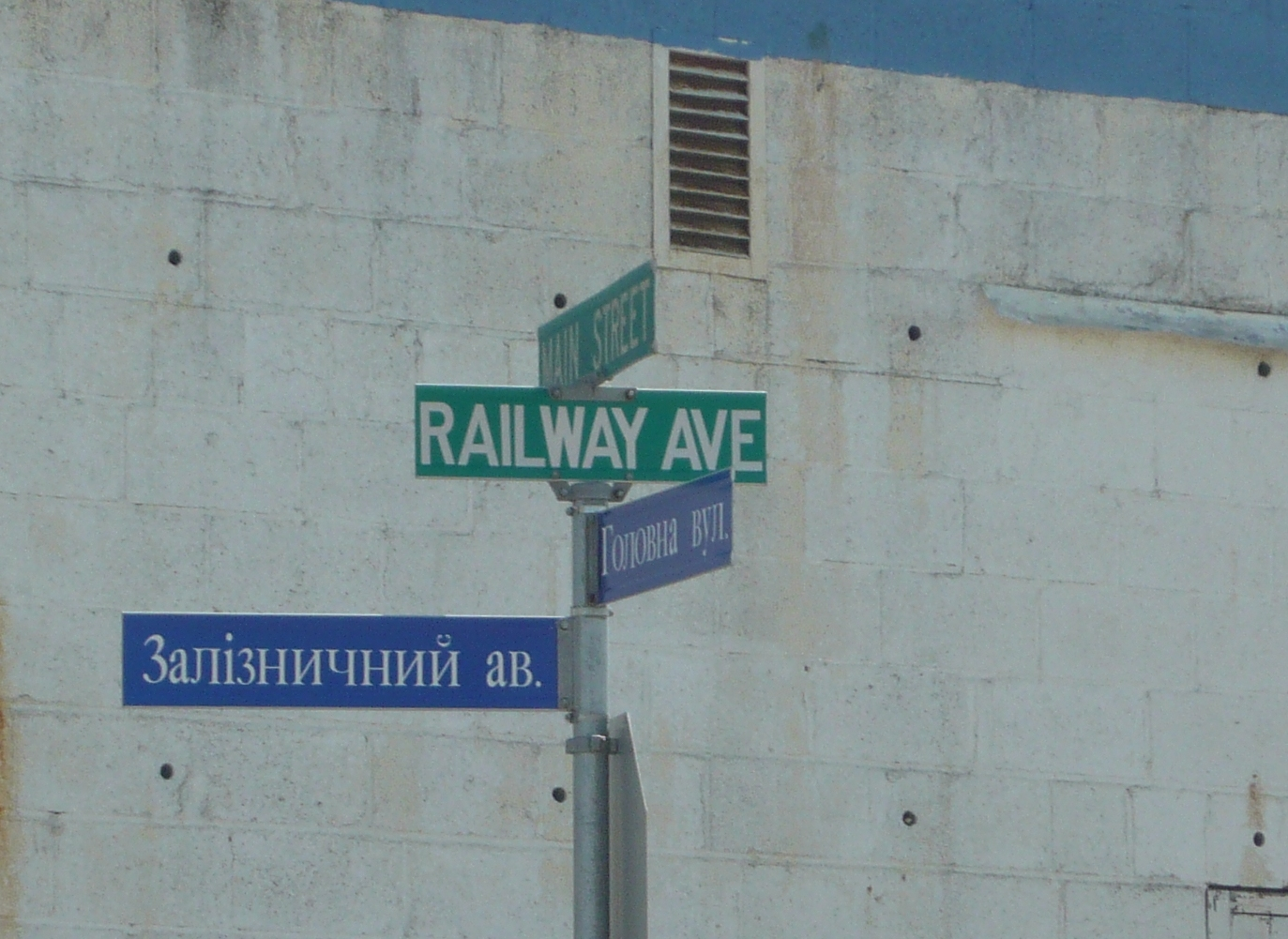 Bilingual (English-Ukrainian) street sign in Hafford, Saskatchewan, Canada. Intersection of Main Street and Railway Avenue.